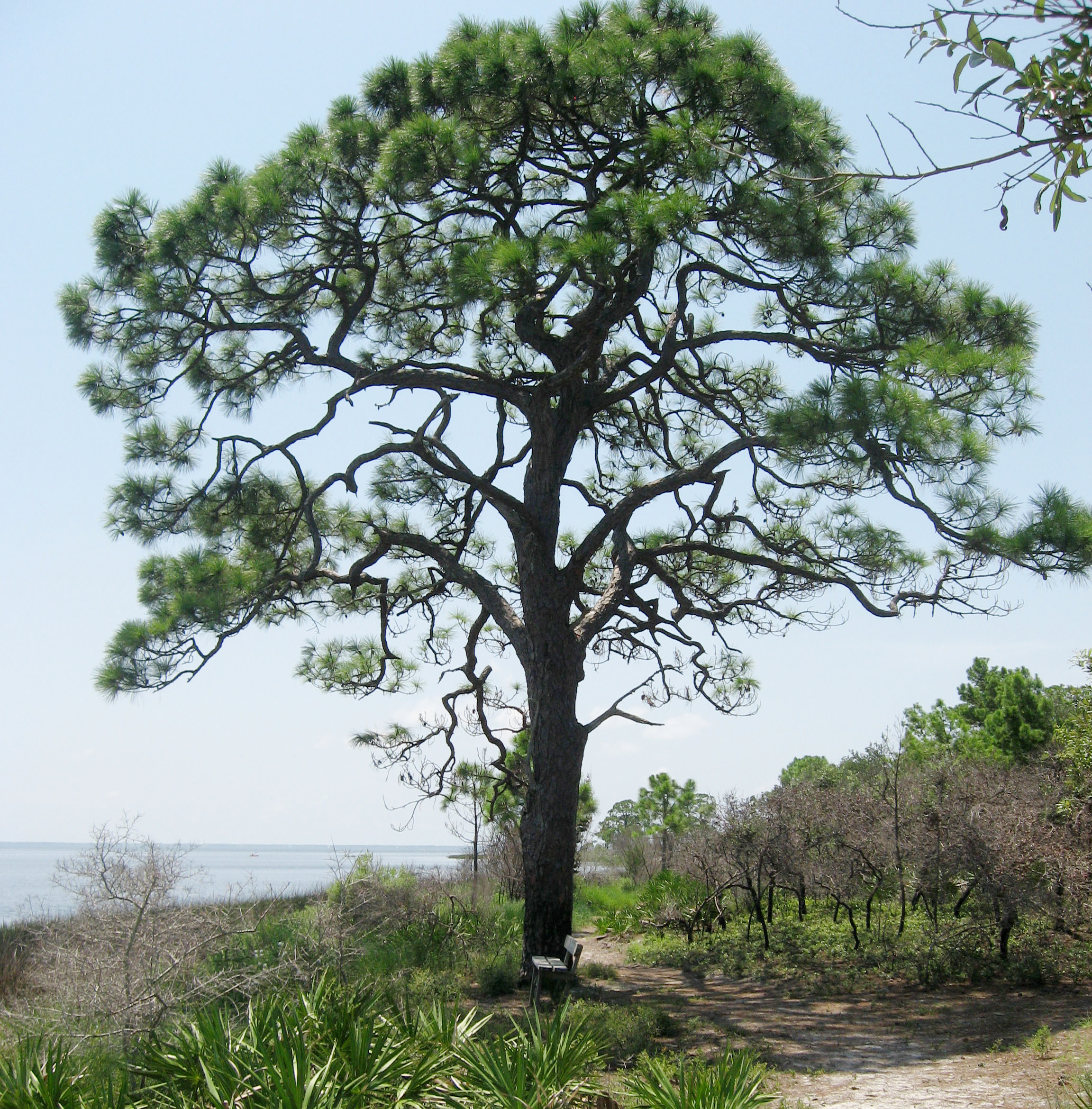 Pinus elliottii at St. Joseph Peninsula State Park, Gulf County, Florida.